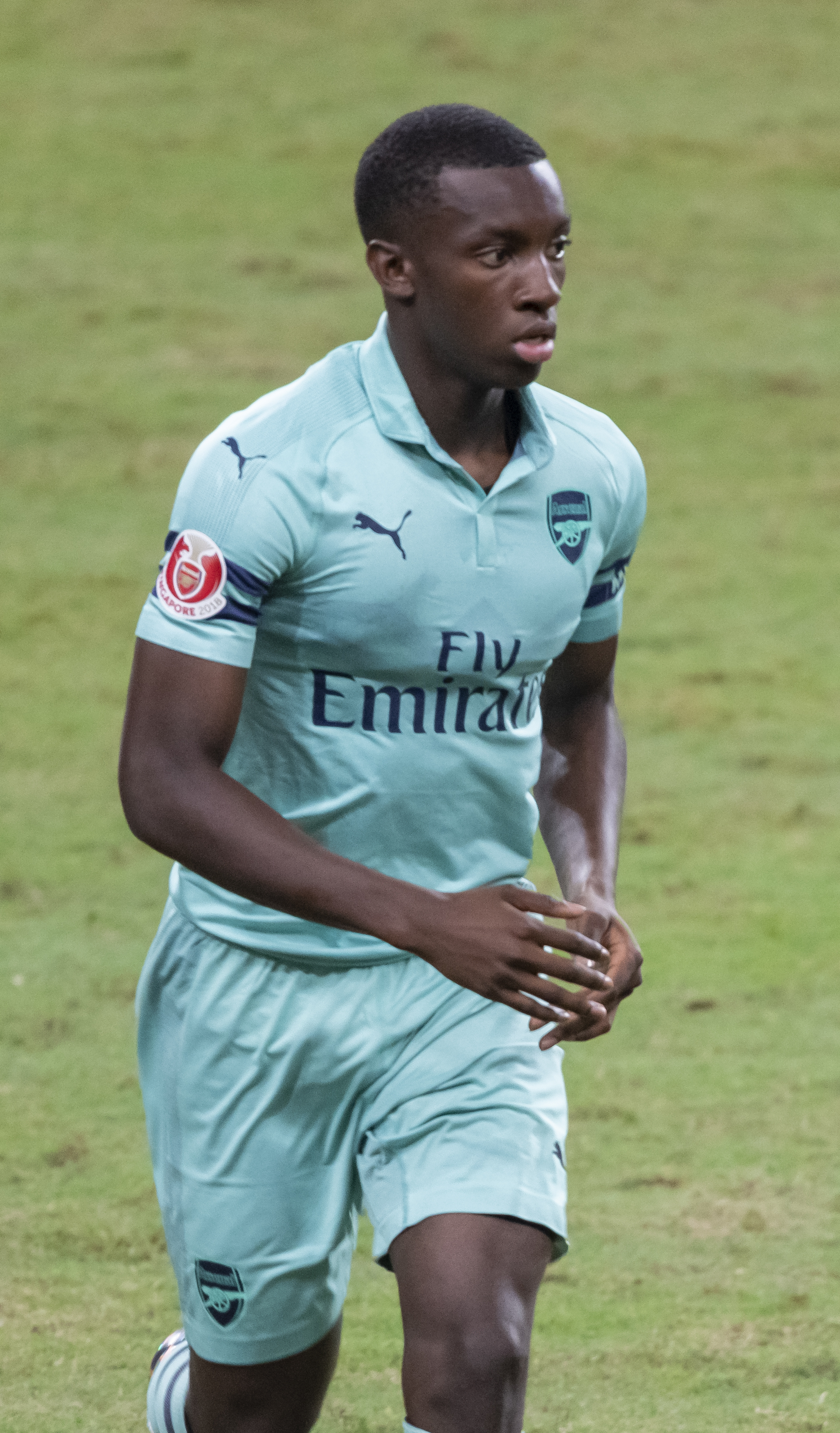 Eddie Nketiah 2018 Singapore National Stadium Arsenal v PSG International Champions Cup